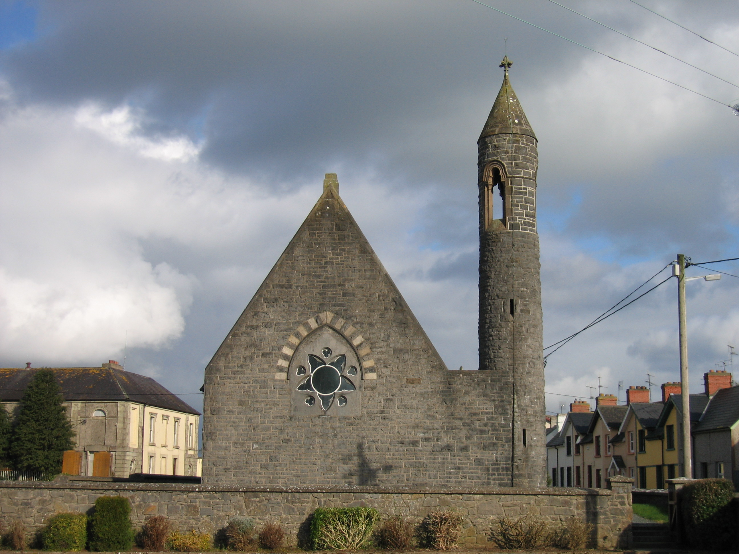 Borris-in-Ossory, Westend